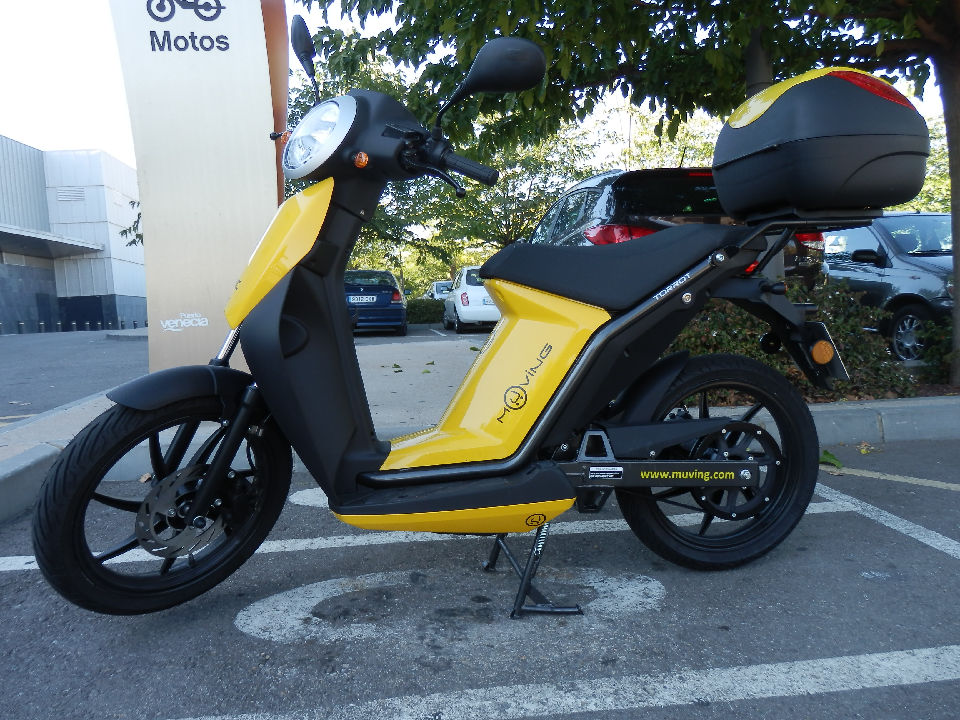 Torrot Muvi electric bike.